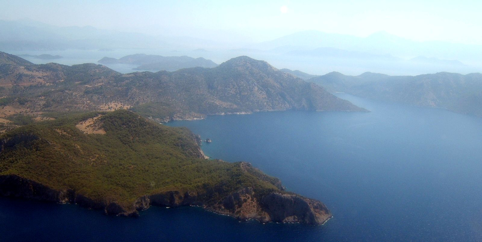 Turkish coastline near Dalaman, behind the peninsula you can see the gulf of Gocek with its many islands and further away the gulf of Fethiye